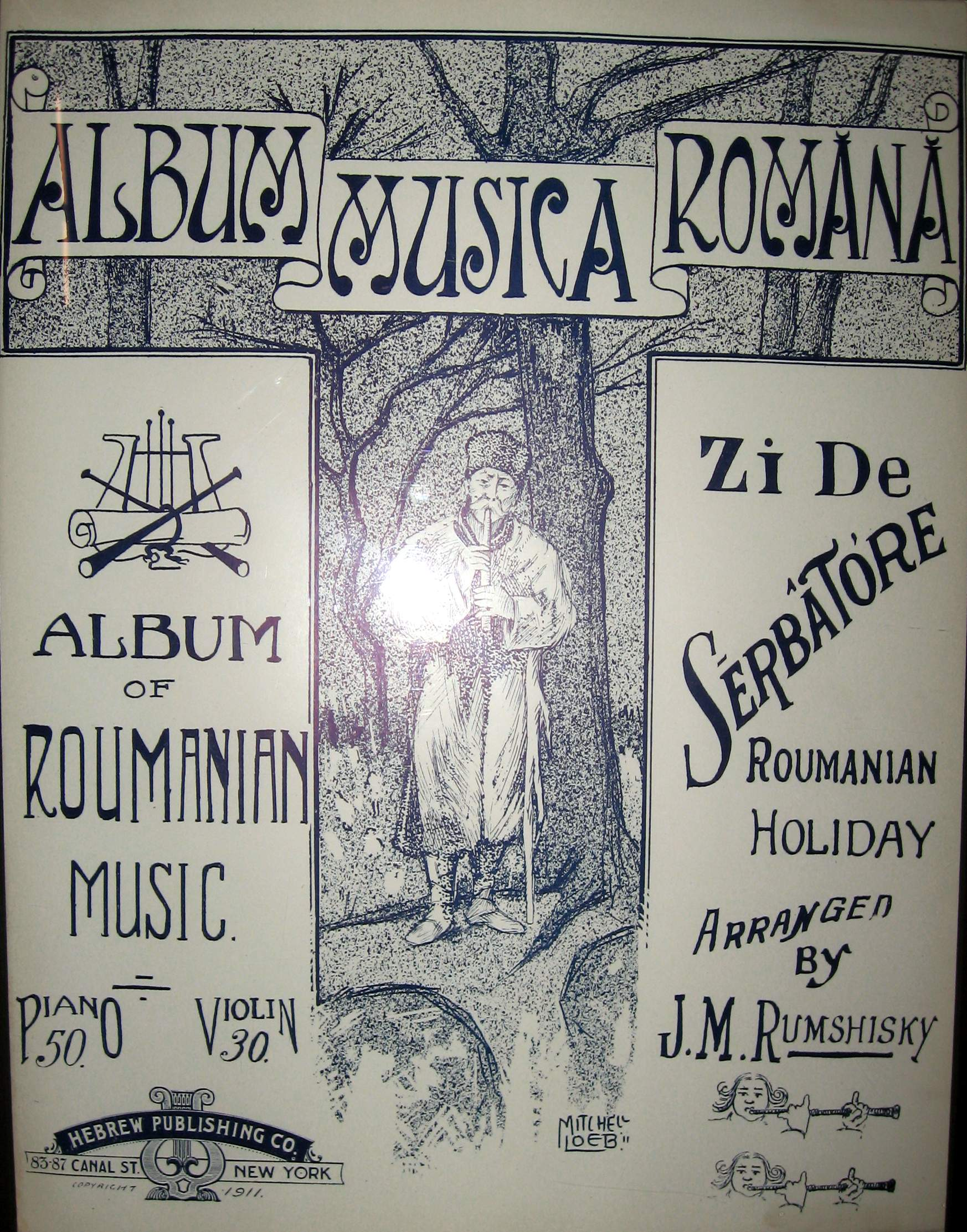 An album of Rumanian music issued by the jewish immigrants from Romania in New York at the beginning of the 20th century.